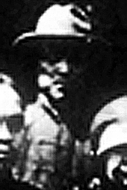 Gu Shunzhang, Communist Chinese leader and special agent